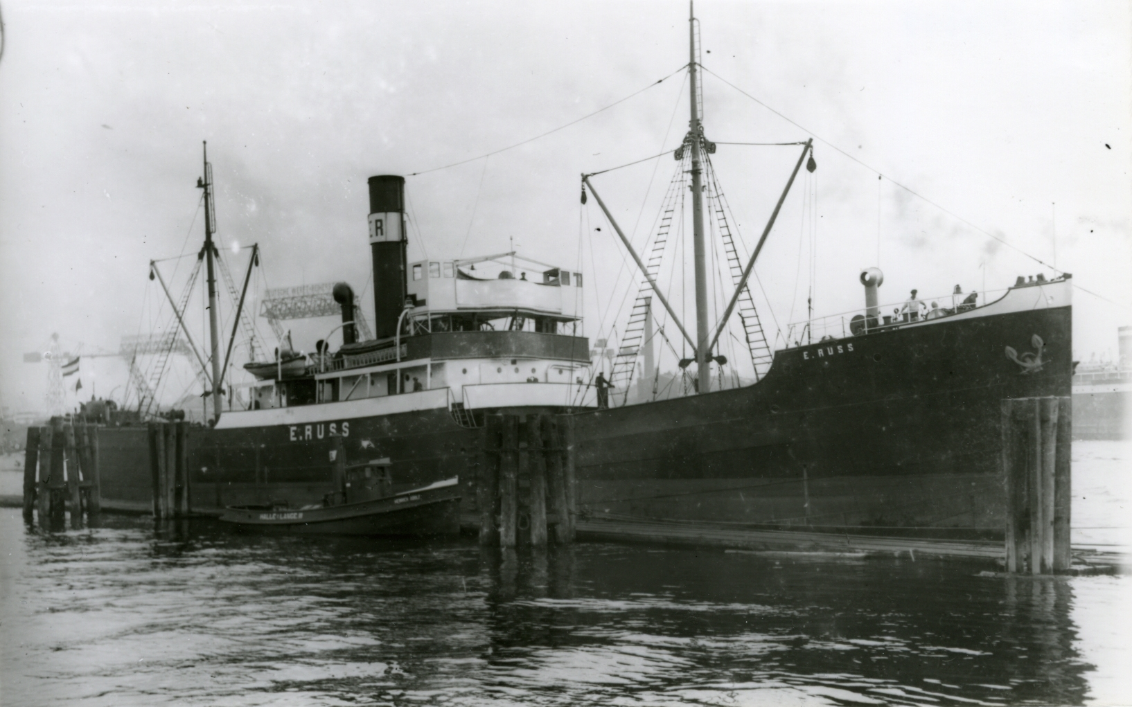 General cargo ship E. RUSS (later IMO 5334731) built at Stettiner Oderwerke AG, Stettin-Grabow (yard № 663, completed: 10-1919) for Reederei Ernst Russ, Hamburg, later name: 1946 SOCHI, 1969 deleted from the register; collection J. Robert Boman (1926 - 2002) owned by Sjöhistoriska museet.